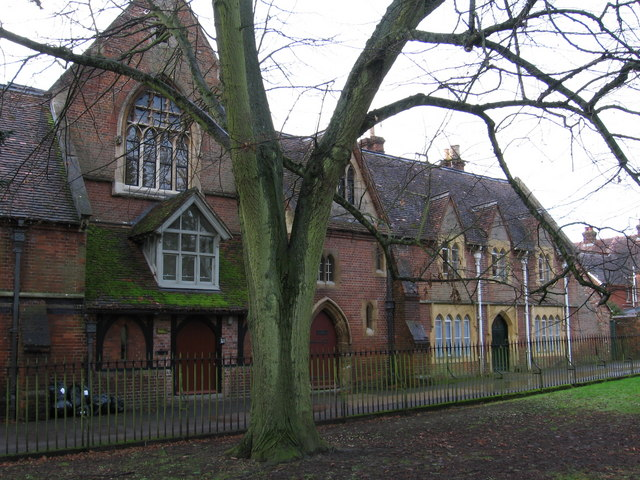 Salisbury - Old St Edmunds School - North End The school was re-located to its current Laverstock site in the 1950's.